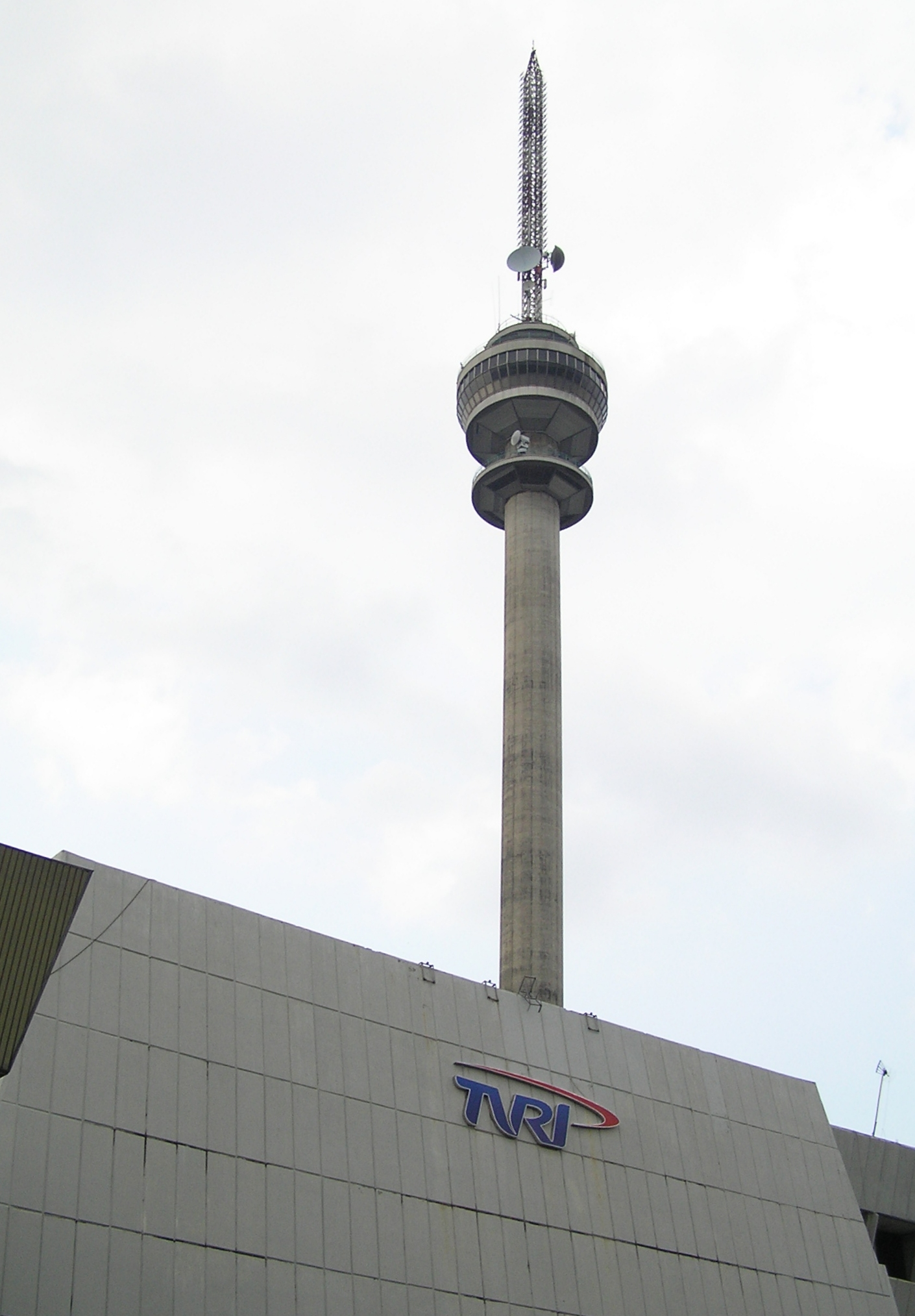 The main TV tower of Indonesian state-owned TVRI at its headquarters in Jakarta